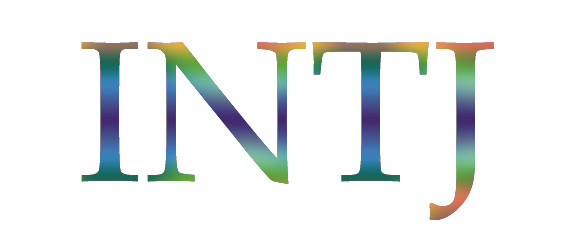 fancy logo/writing for use in MBTI articles